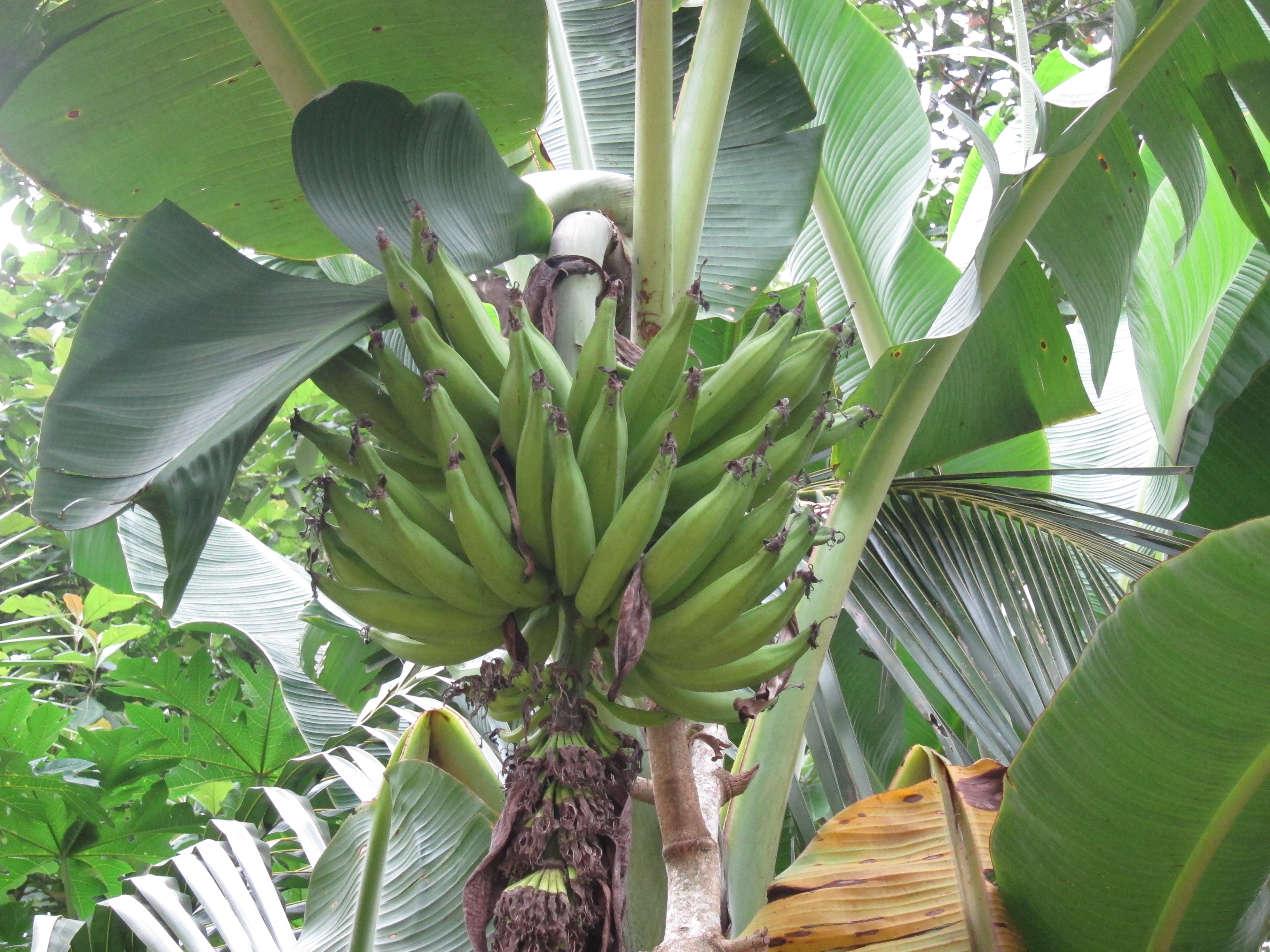 Banana - വാഴ, നേന്ത്രൻ, ഏത്തക്കായ